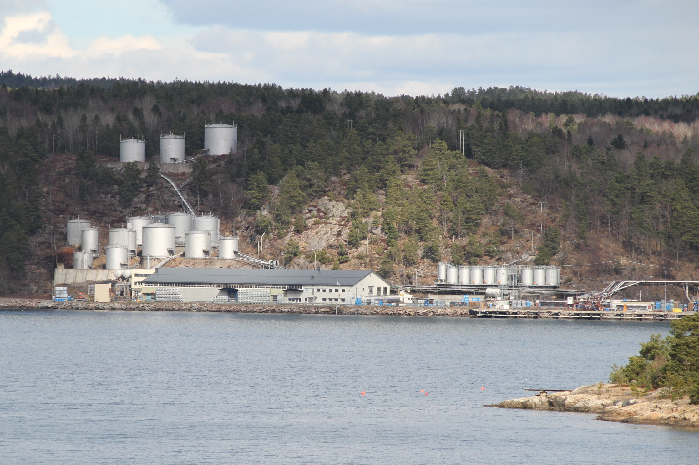 Image from the west coast of Nesodden municipality, Akershus, east Norway